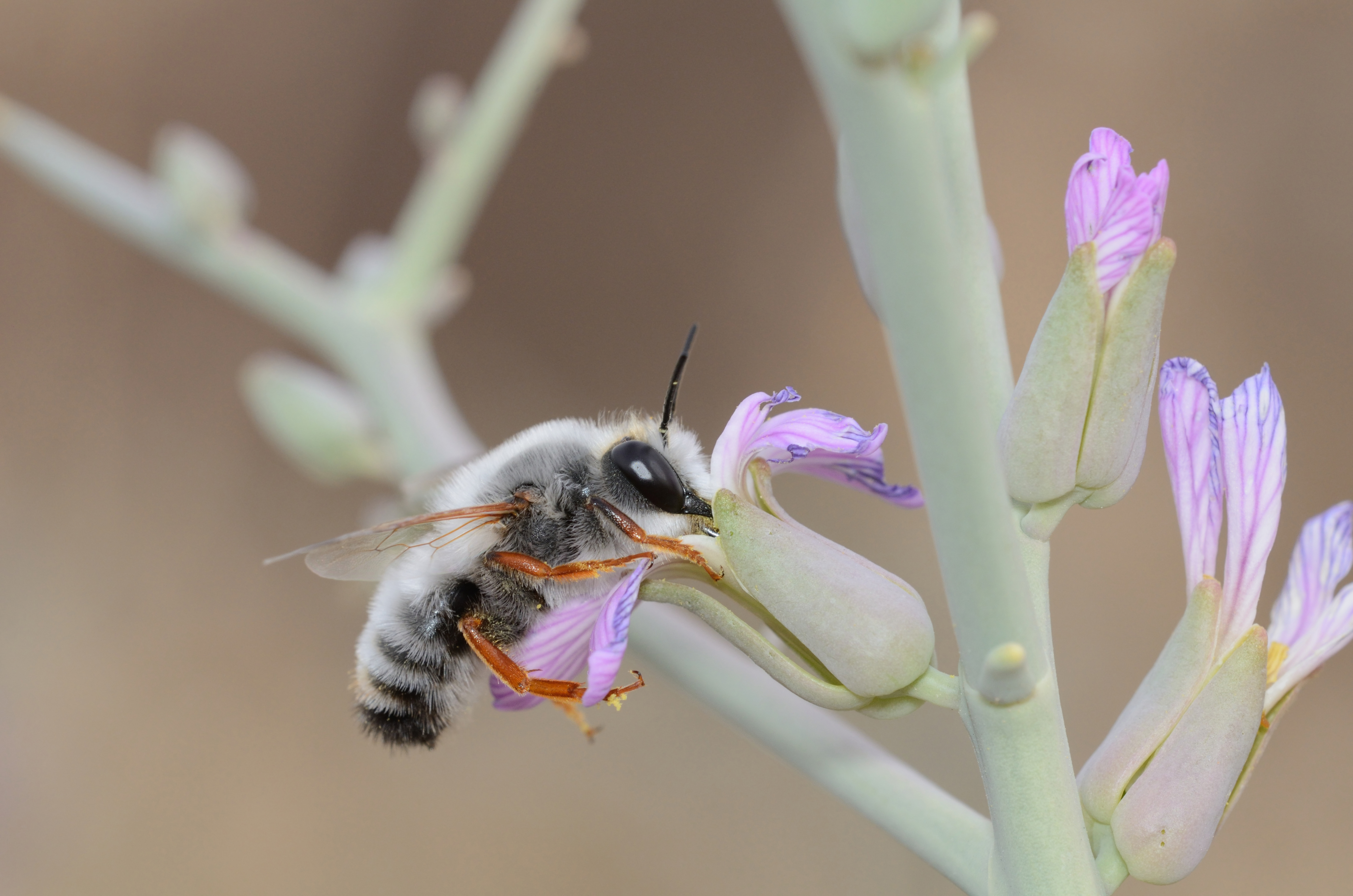 Megachile (Chalicodoma) incerta Radoszkowski 1876, male foraging on Zilla spinosa, Makhtesh Ramon, Israel, February 21, 2014.